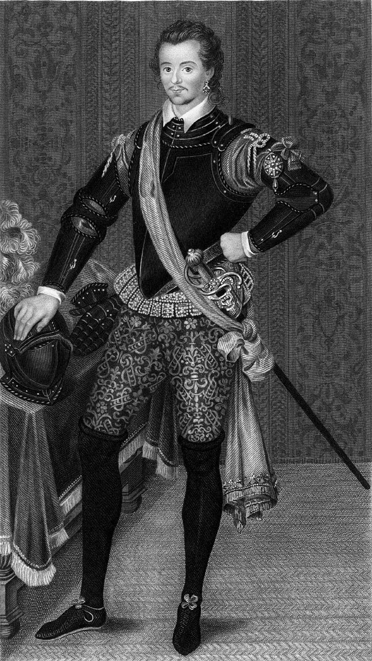 Sir Robert Dudley (1574–1649), English explorer and cartographer 1590s; engraving from a portrait by Nicholas Hilliard.